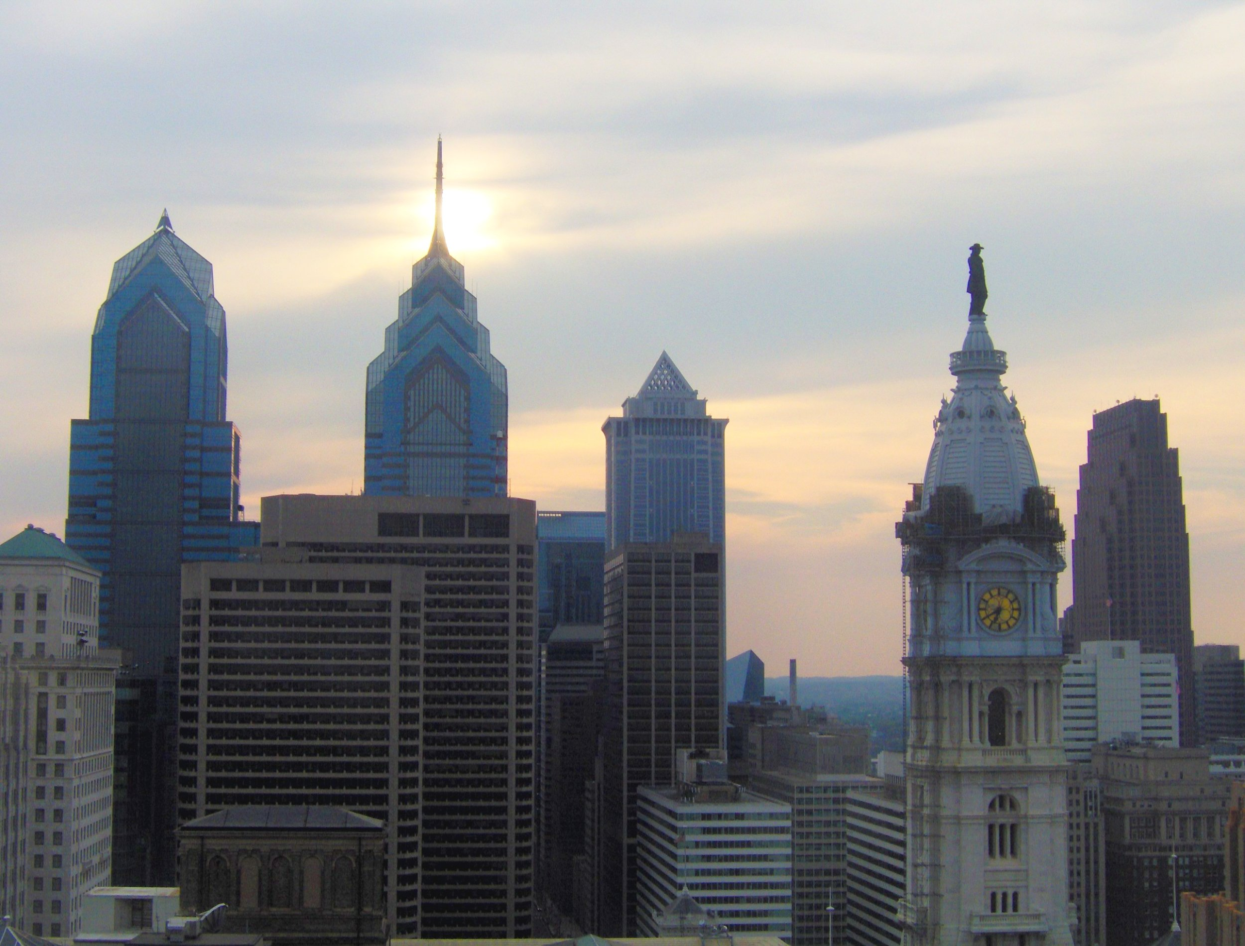 Philadelphia skyline with William Penn atop town hall. Category:Images of Philadelphia, Pennsylvania